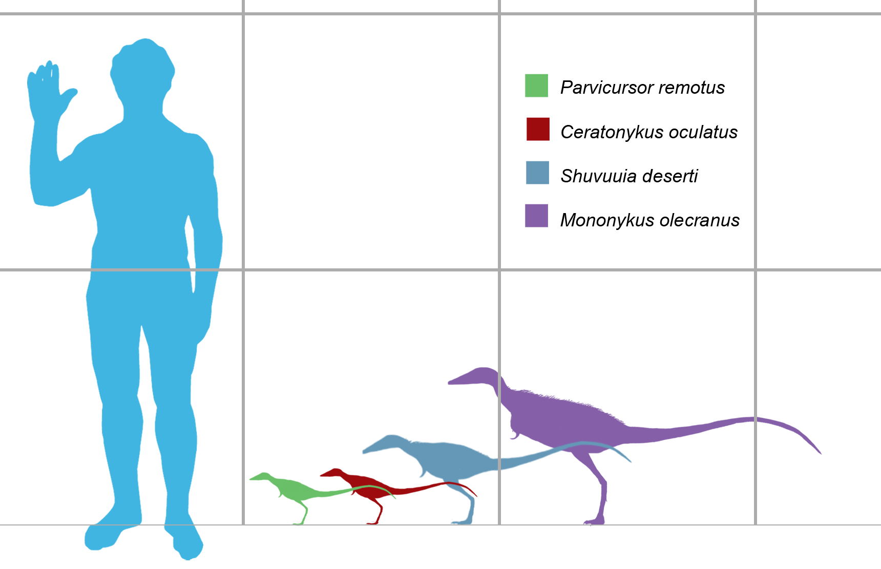 Size comparison of several parvicursorine dinosaurs. From left to right: Parvicursor remotus (green), Ceratonykus oculatus (red), Shuvuuia deserti (blue), and Mononykus olecranus (violet). Scaled to tibia length in their respective descriptions.